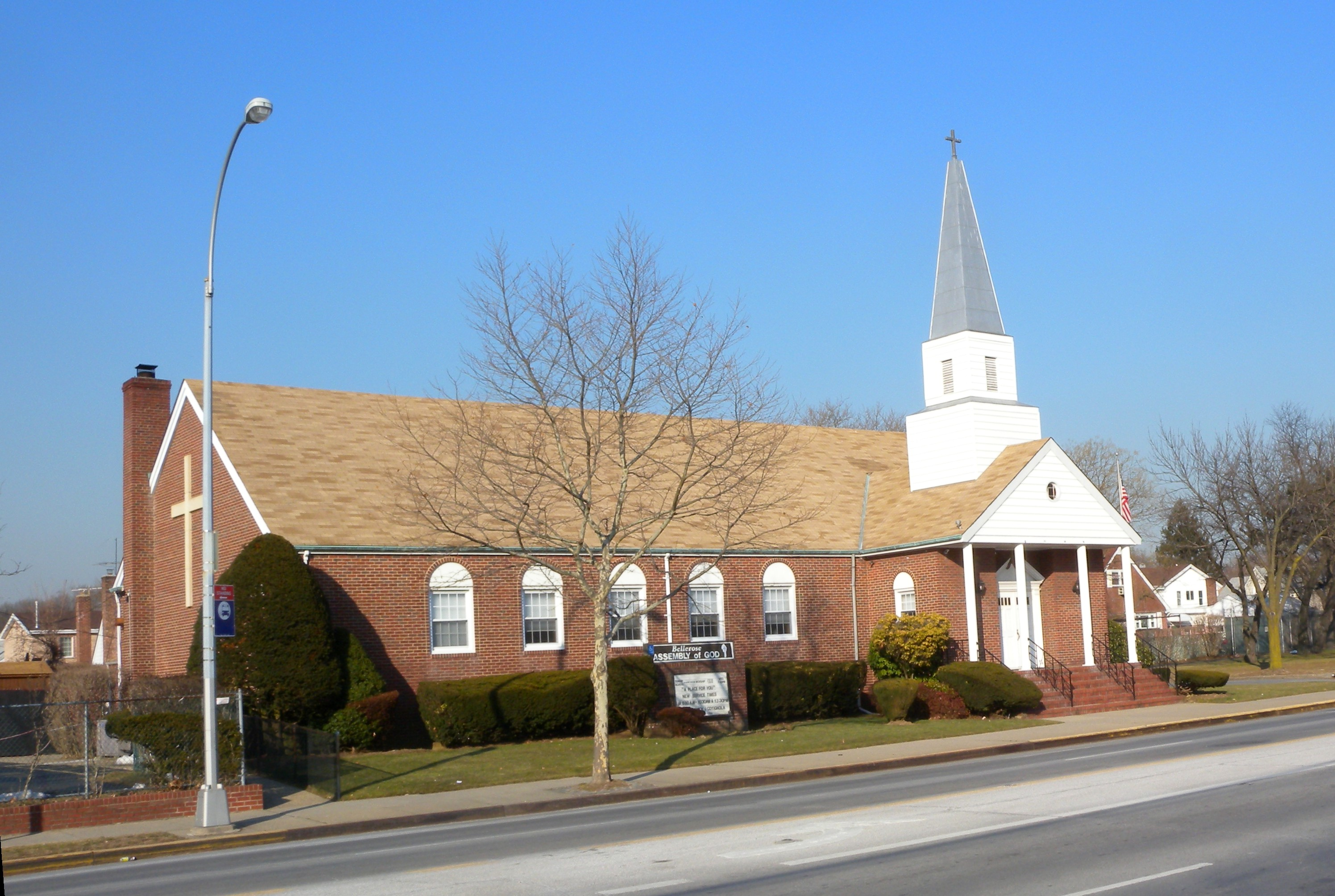 Looking northeast across Hillside Avenue in Bellerose Manor, Queens at Assembly of God church on a sunny afternoon.